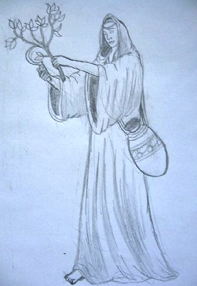 Estë, the valië, in a picture by Gregor Roffalski.